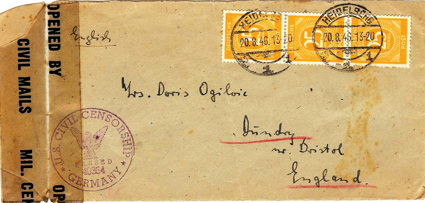 Letter from Heidelberg, Germany in 1946 to the submitter's mother Doris Ogilvie in East Dundry near Bristol England and scanned by the submitter. The envelope (15x8cms) was opened by US censors and stamped "U.S. Civil censorship Germany" and "passed 40364".